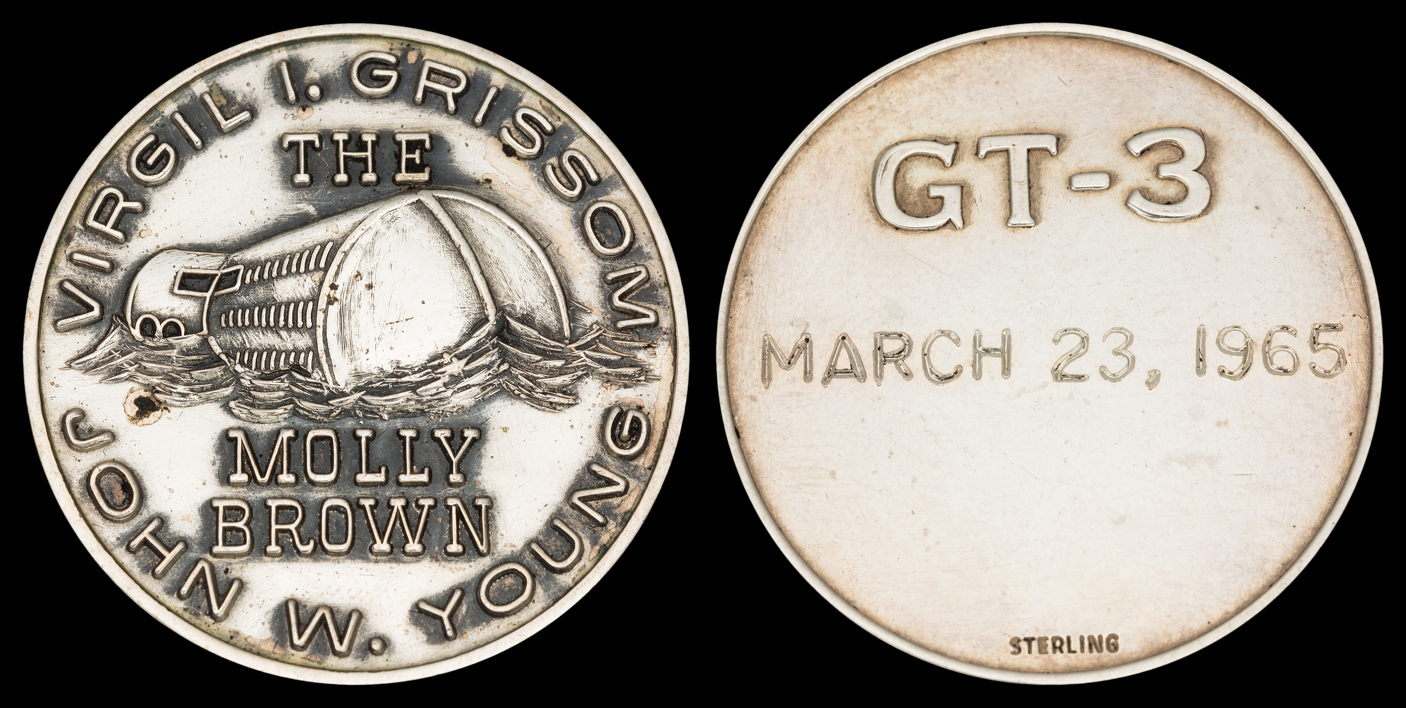 Gemini 3 Flown Silver Fliteline Medallion(6115-40057)